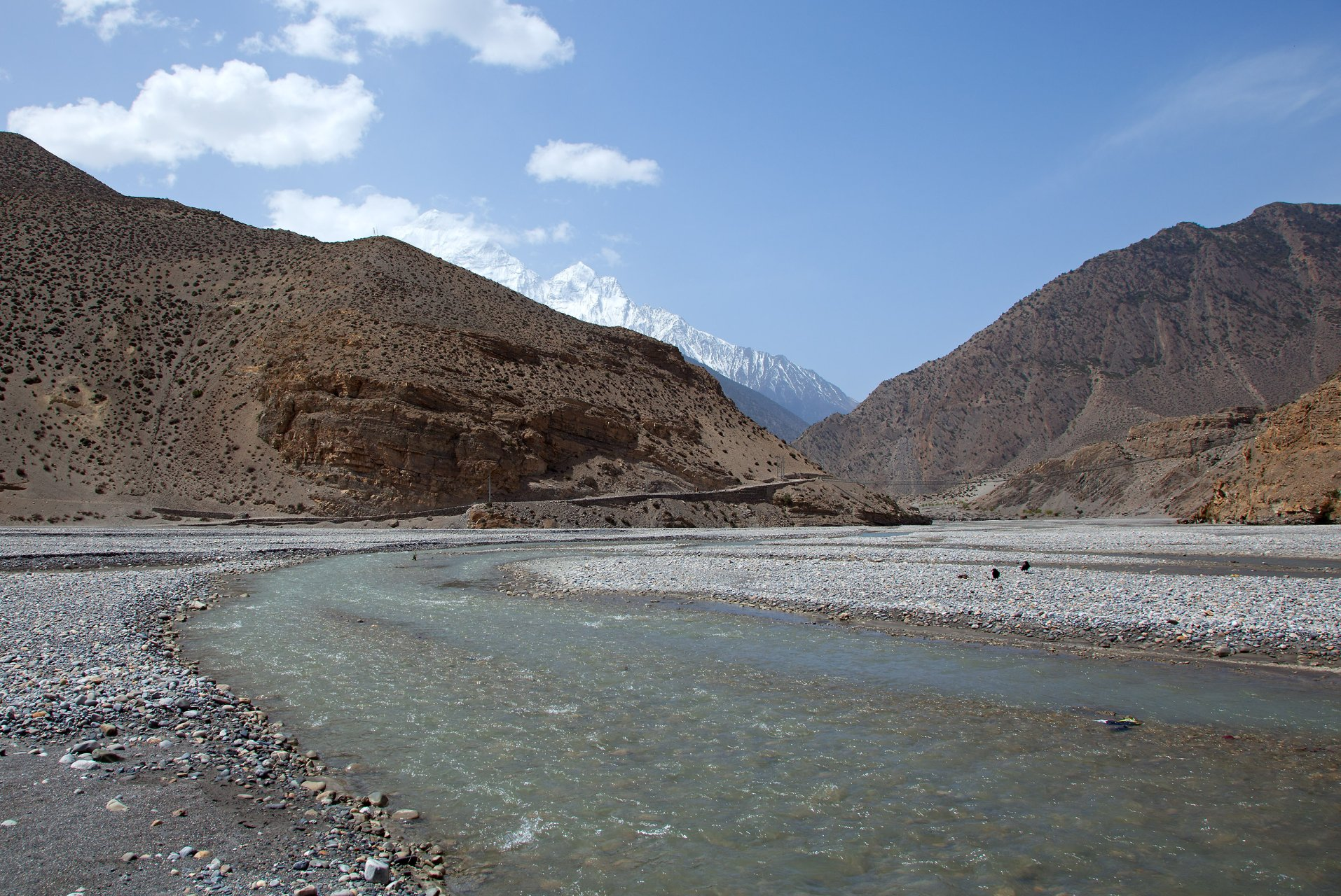 The Kali-Gandaki river, Nepal near Jomsom